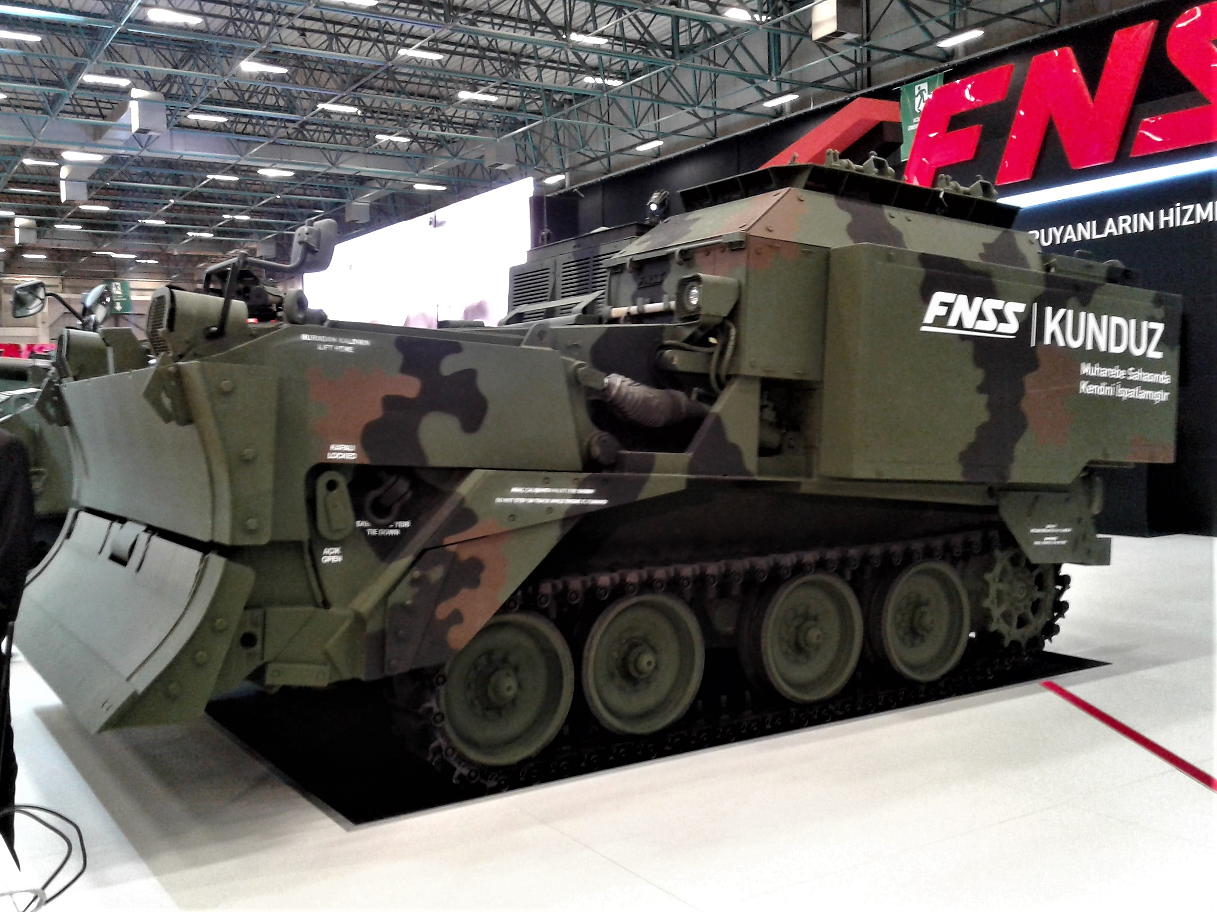 Tracked amphibious combat engineering armored bulldozer IDEF 2019 in Istanbul, Turkey.